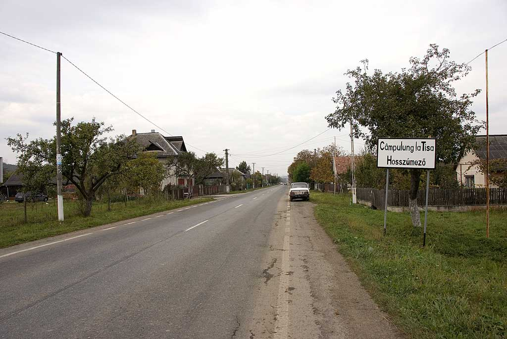 Câmpulung la Tisa - Maramureş Romania